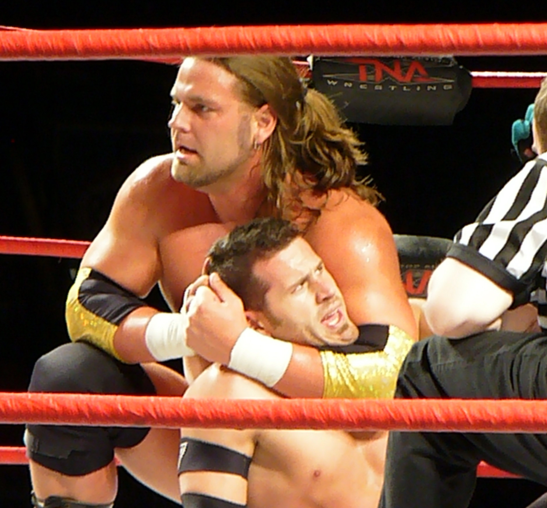 James Storm has Alex Shelley in a headlock